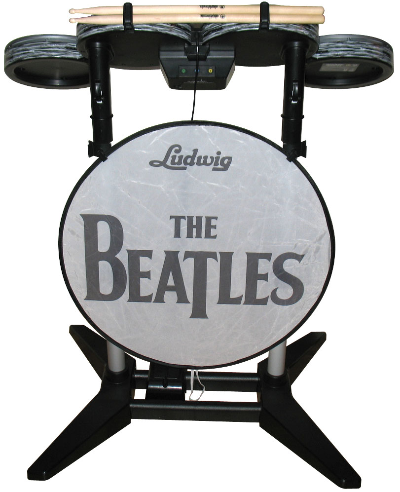 Drum kit set for the video game The Beatles: Rock Band